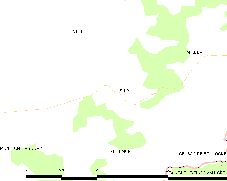 Map of French municipality